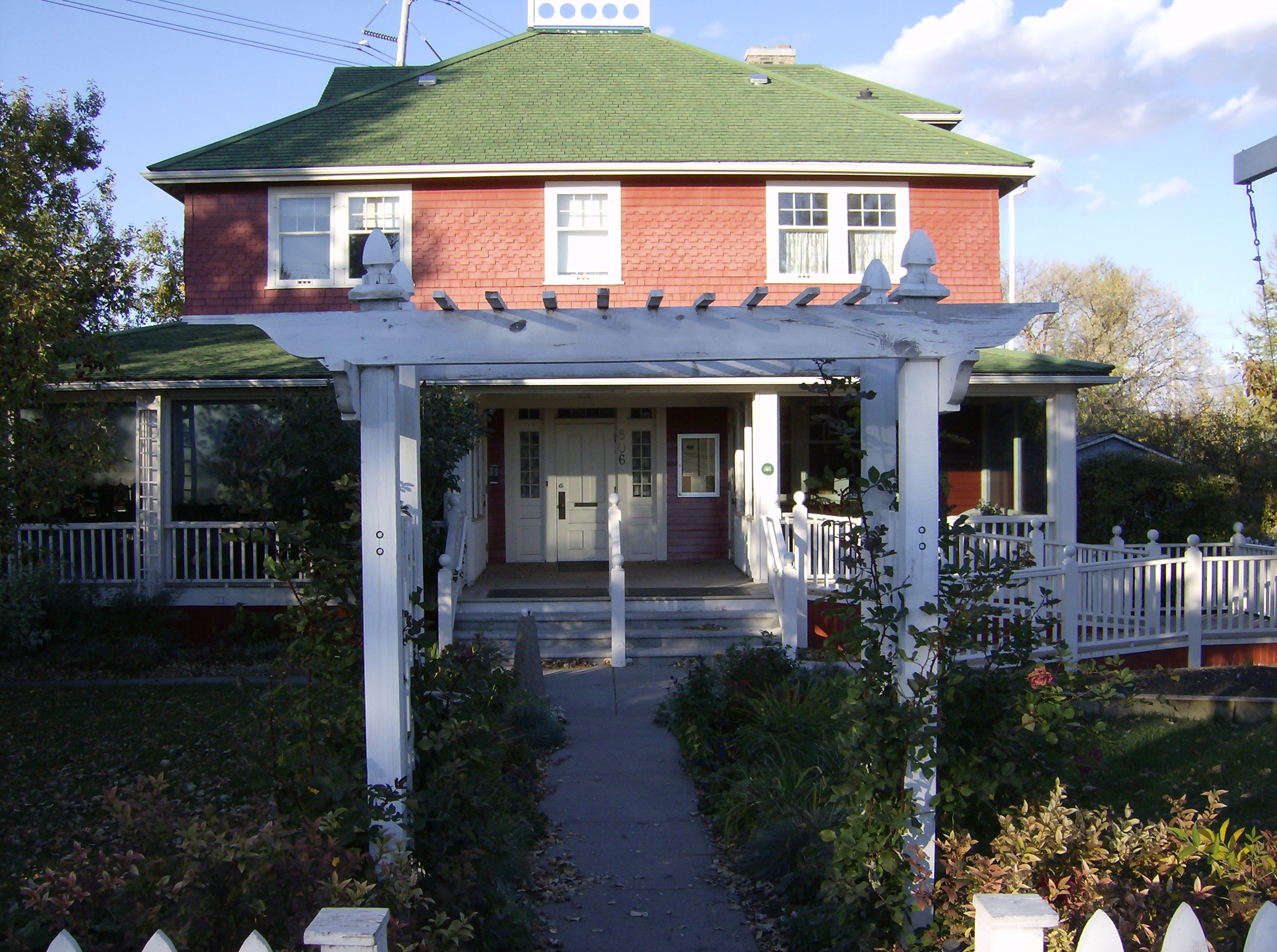 The Deane House (806 - 9 Avenue SE, Calgary, Alberta, Canada. This picture of The Deane House is also on page 12 of Haunted Houses (ISBN 978-1-59716-573-0).